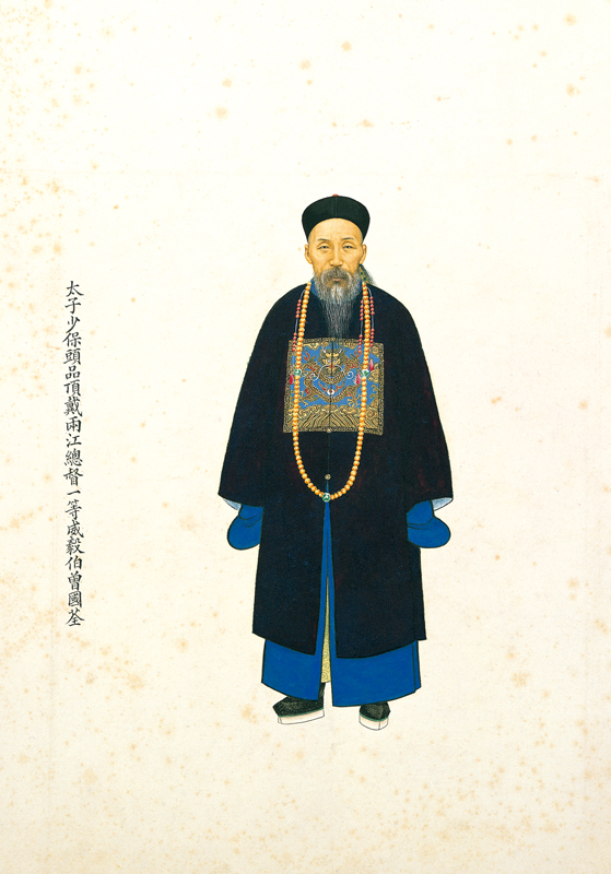 平定粵匪功臣像─曾國荃像 Portrait of Zeng Guoquan From The Portraits of Generals and Officials of the Qing Dynasty